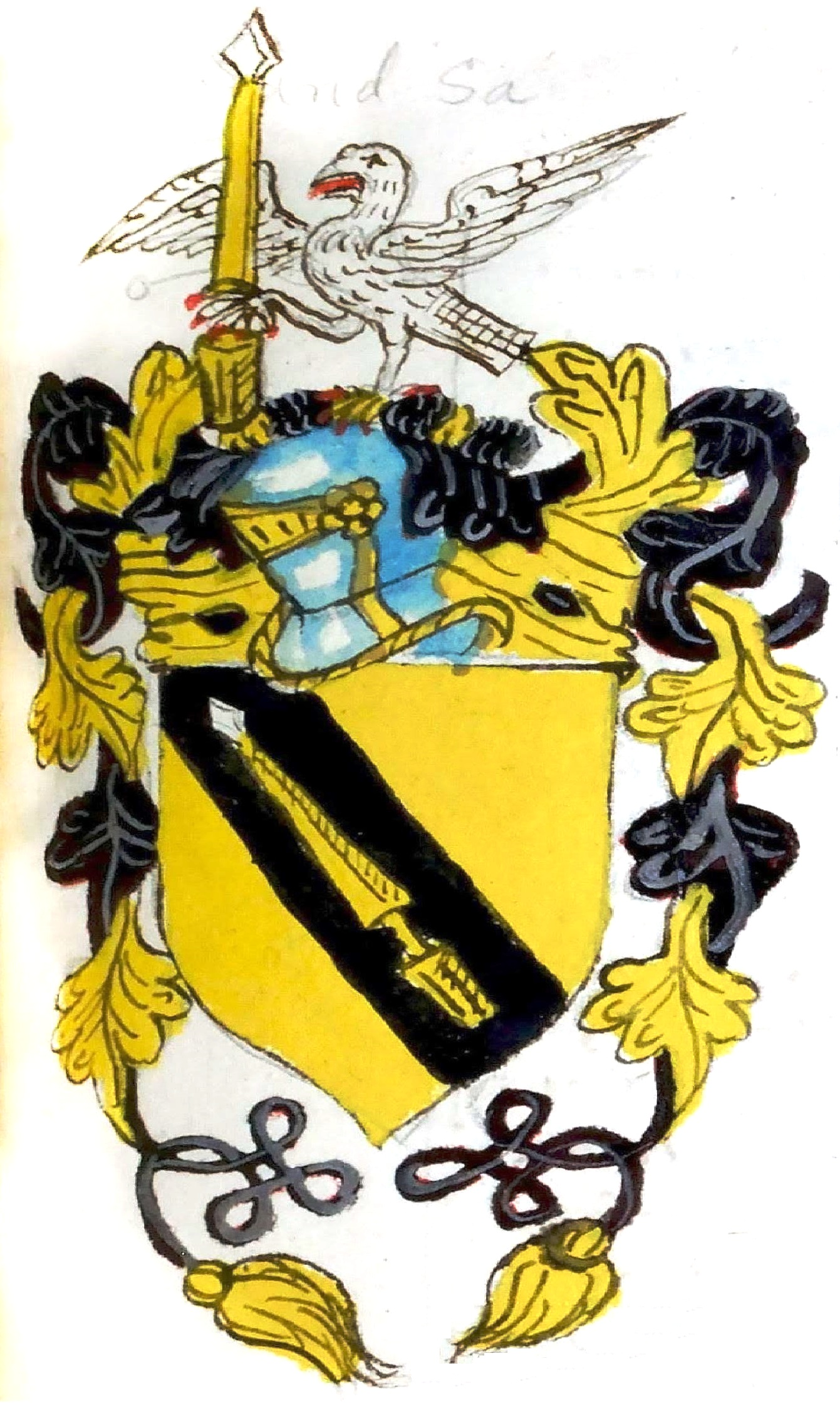 Copy of John Shakespeare's coat of arms by Sir William Dethick Garter King of Arms.